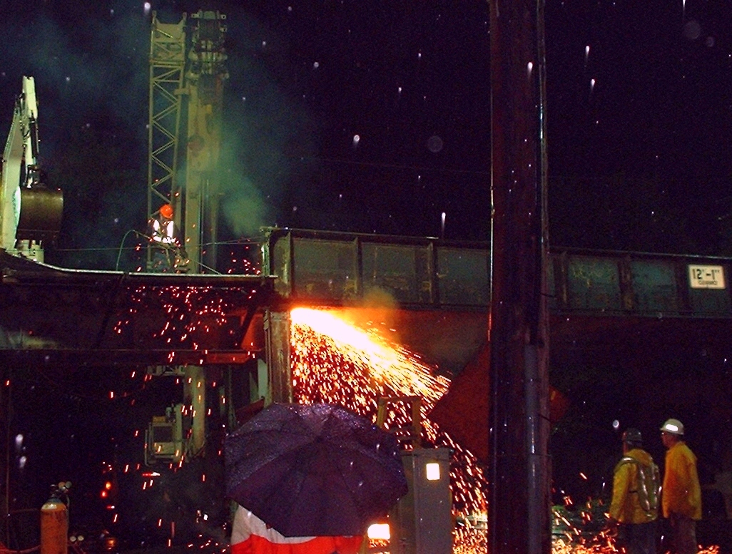 Thermal lance in operation I took this picture just before midnight on August 4, 2004. It shows a thermal lance being used to cut apart a Norfolk & Western railroad bridge crossing Front Street in Binghamton, New York. The bridge was removed and replaced in one night. --agr 05:05, 15 Aug 2004 (UTC) I brightened this image in Paintshop Pro to make the details clearer. Anthony Appleyard 09:06, 20 July 2006 (UTC)